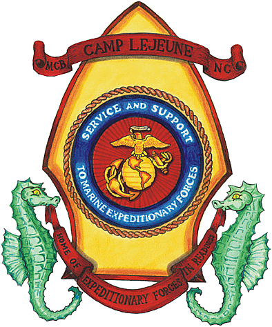 Seal of Marine Corps Base Camp Lejeune.